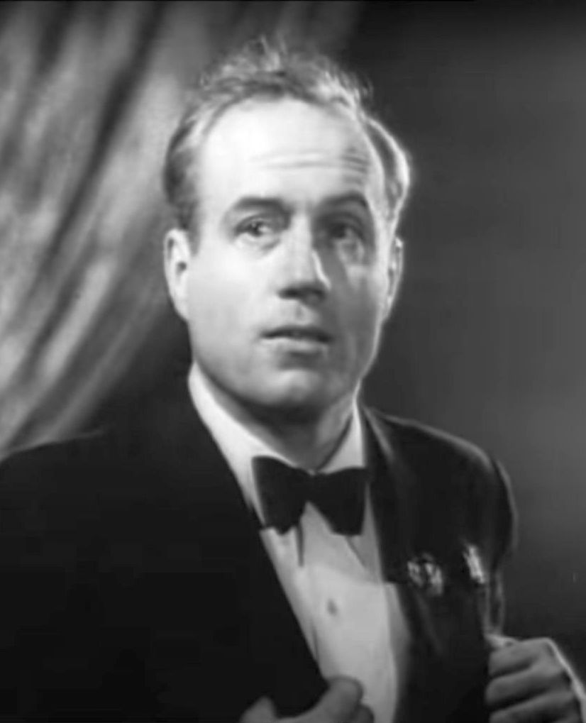 Ivan Kozlovsky, Concert to the front (1942 movie) still